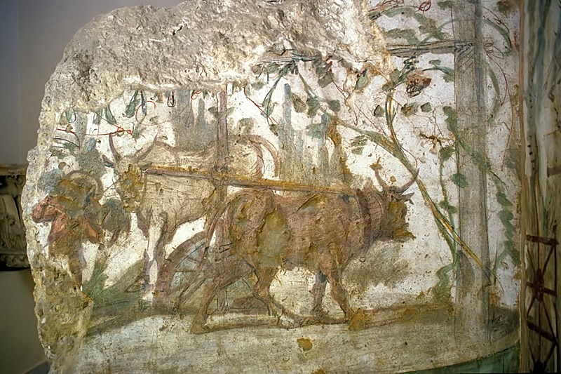 Nile scene fresco from el-Wardian (#27029), Graeco-Roman museum, Alexandria, Egypt